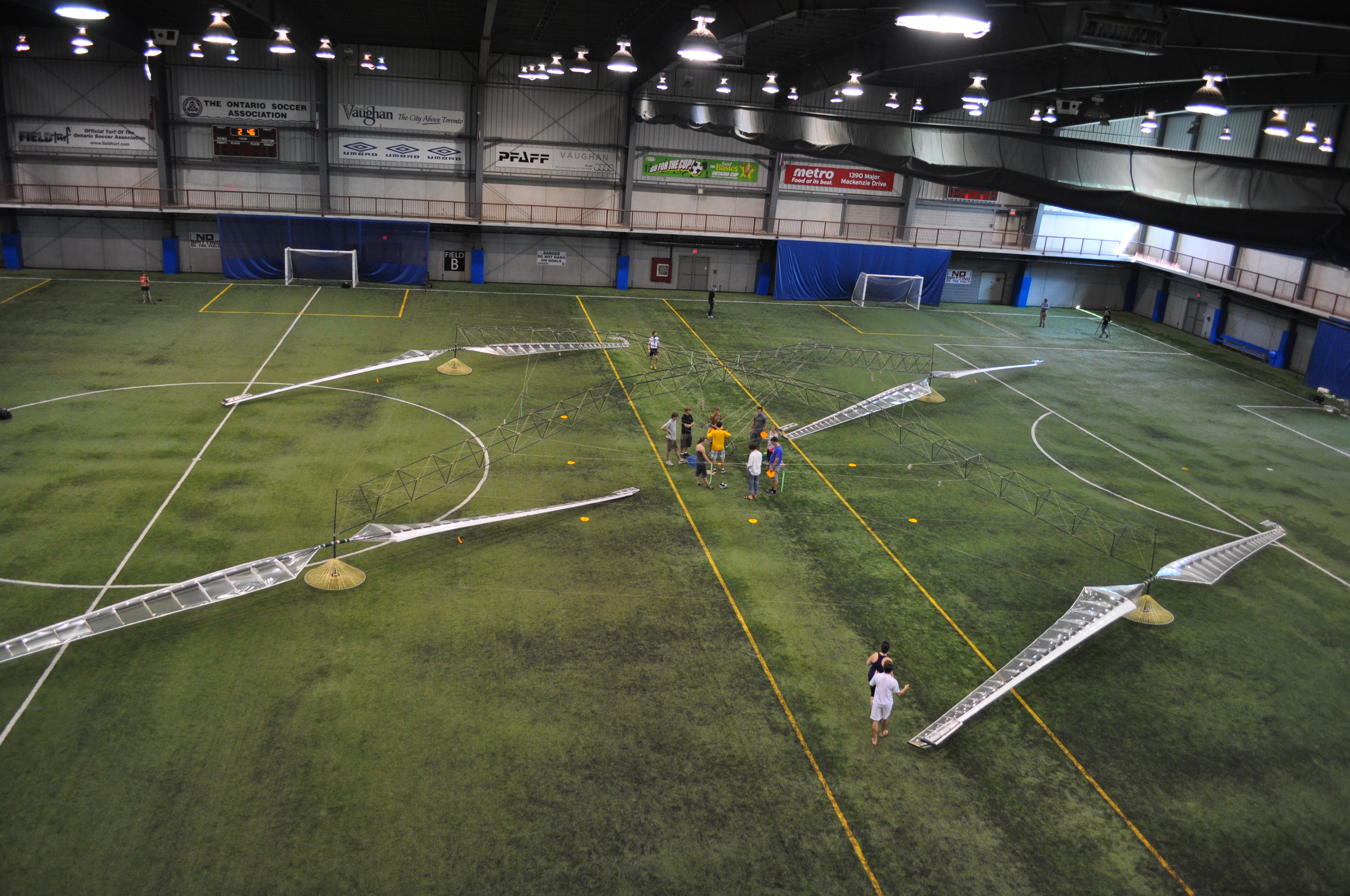 Aerial view of the AeroVelo Atlas Human Powered Helicopter (HPH) developed for the AHS Sikorsky Prize. Taken from the "crow's nest" of the Ontario Soccer Centre.